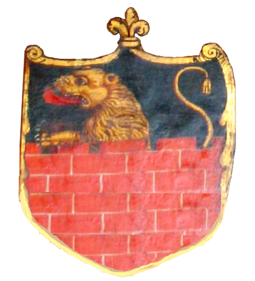 Prawda Coat of Arms capture from Image:JLatalski.jpg, image taken by me user:Mathiasrex Maciej Szczepańczyk